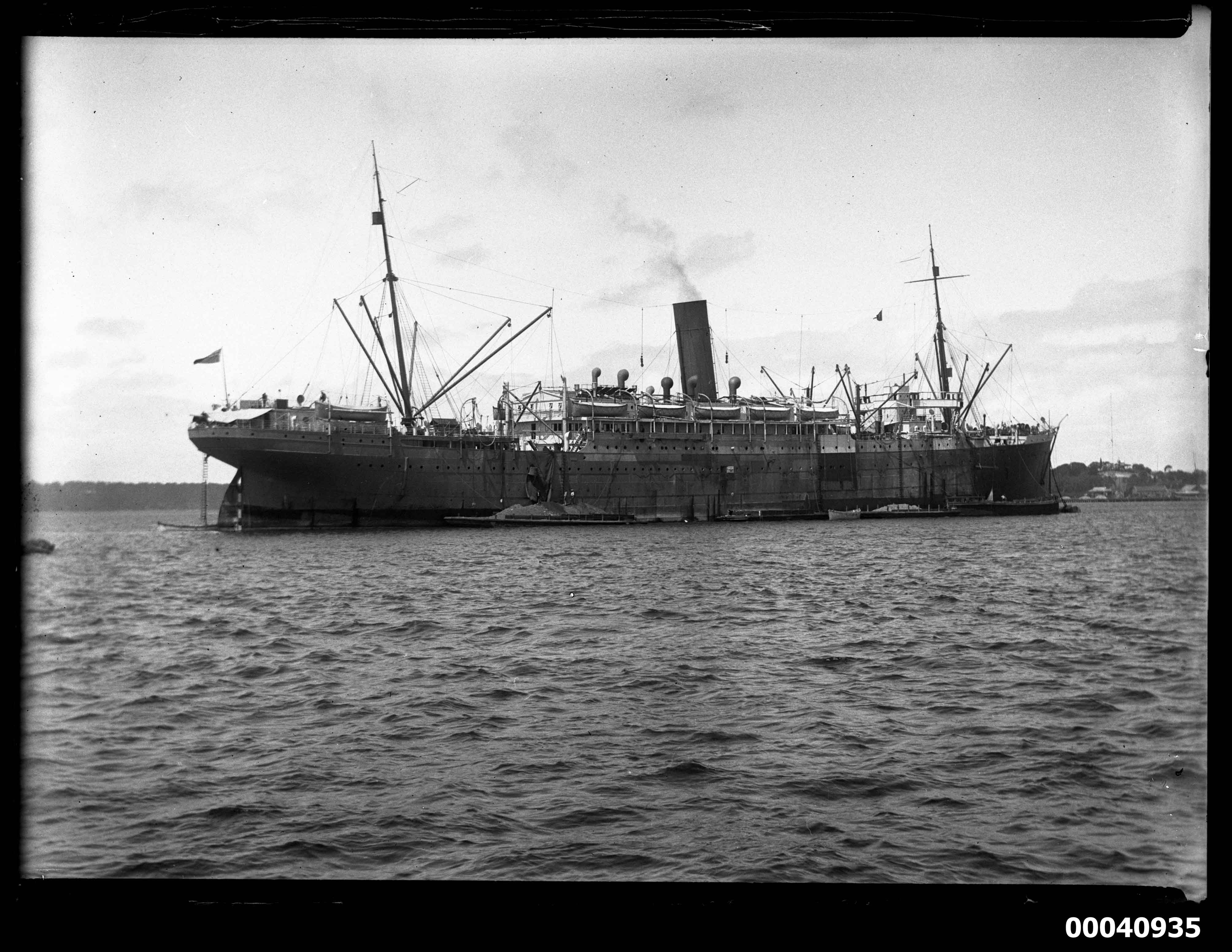 The commercial vessel SS THEMISTOCLES is depicted on Sydney Harbour in this photograph. The vessel was active as a passenger ship for the Aberdeen Line and travelled between Australia and Britain.